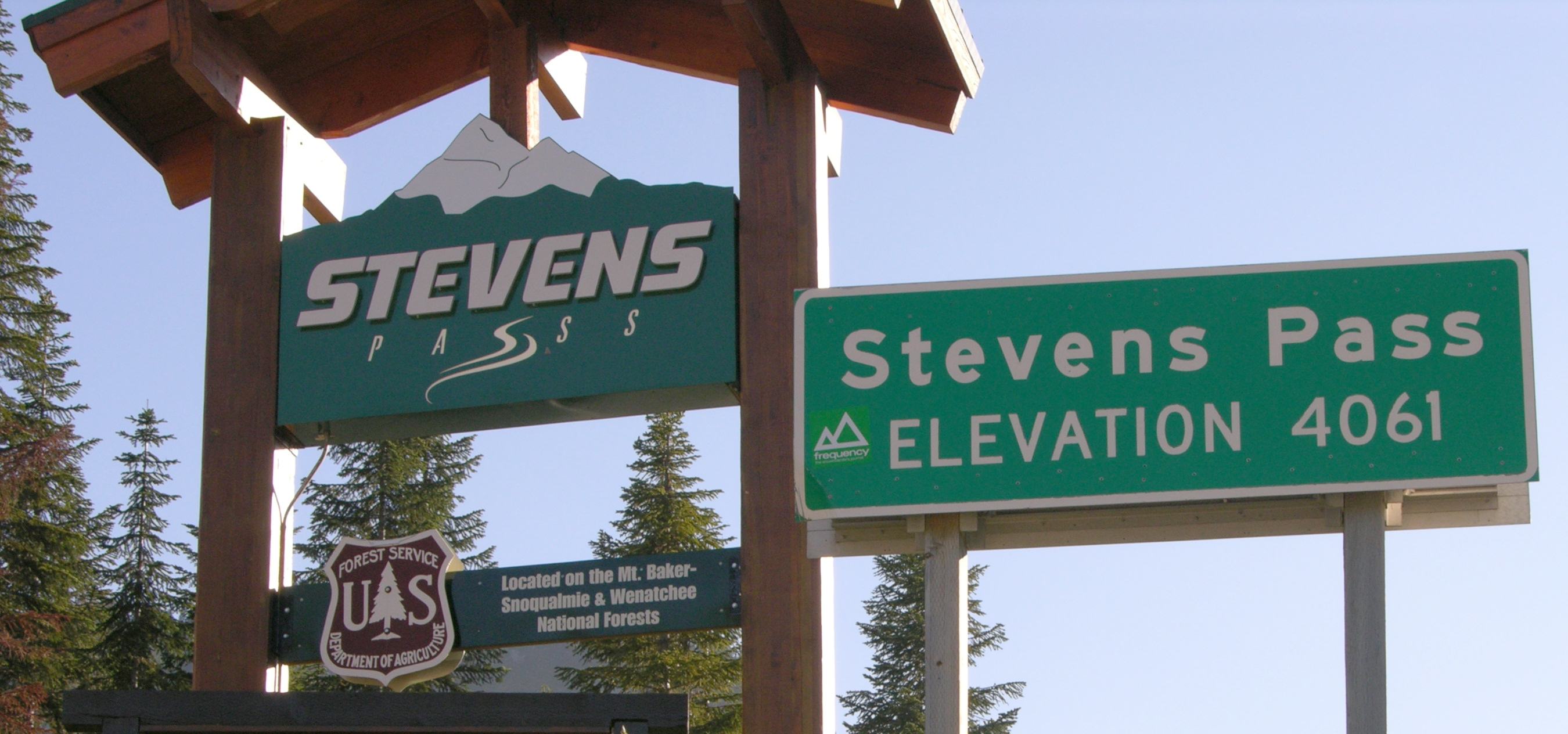 Photograph of the sign indicating Stevens Pass.